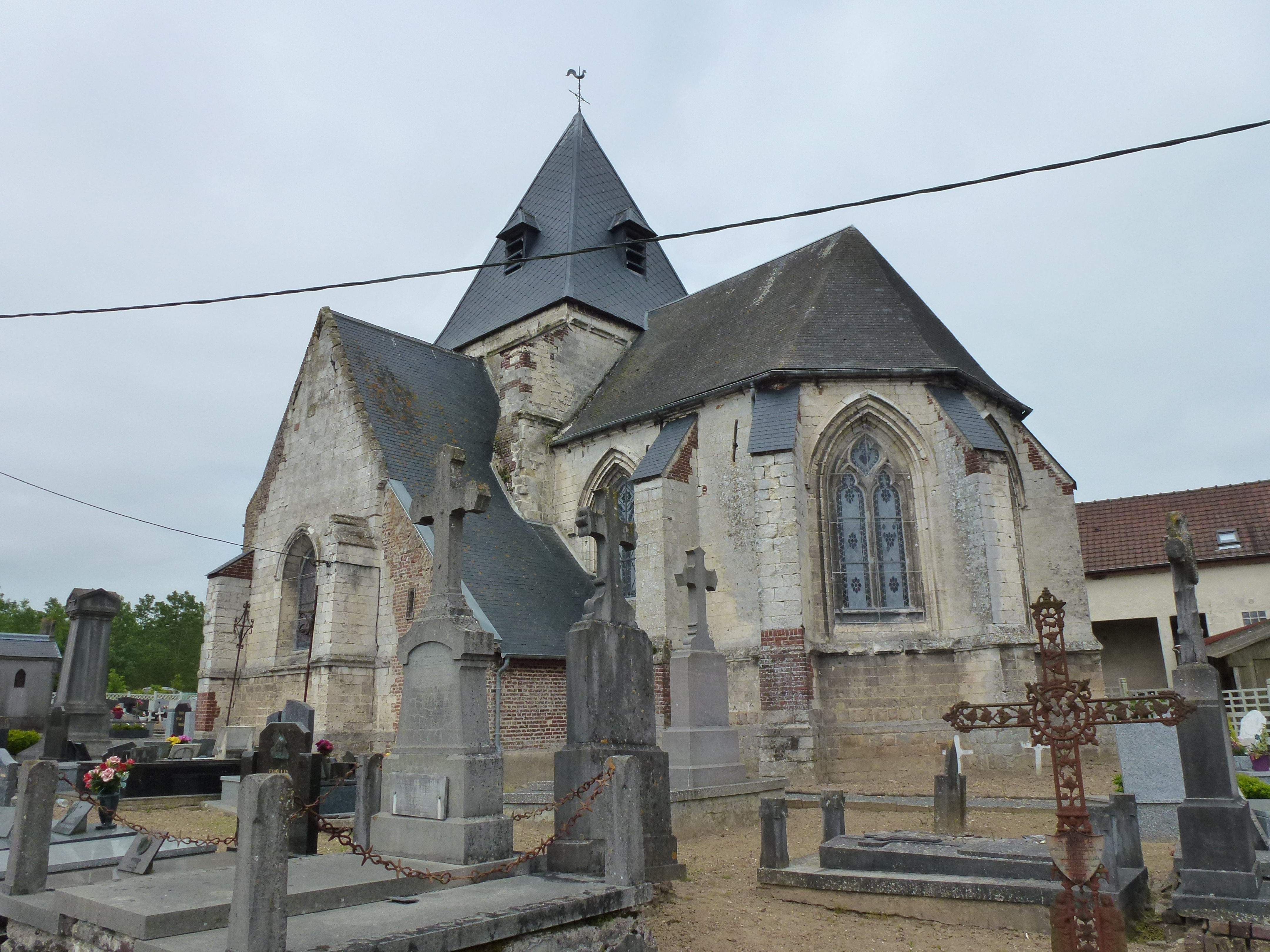 Nédonchel (Pas-de-Calais) église Saint-Menne